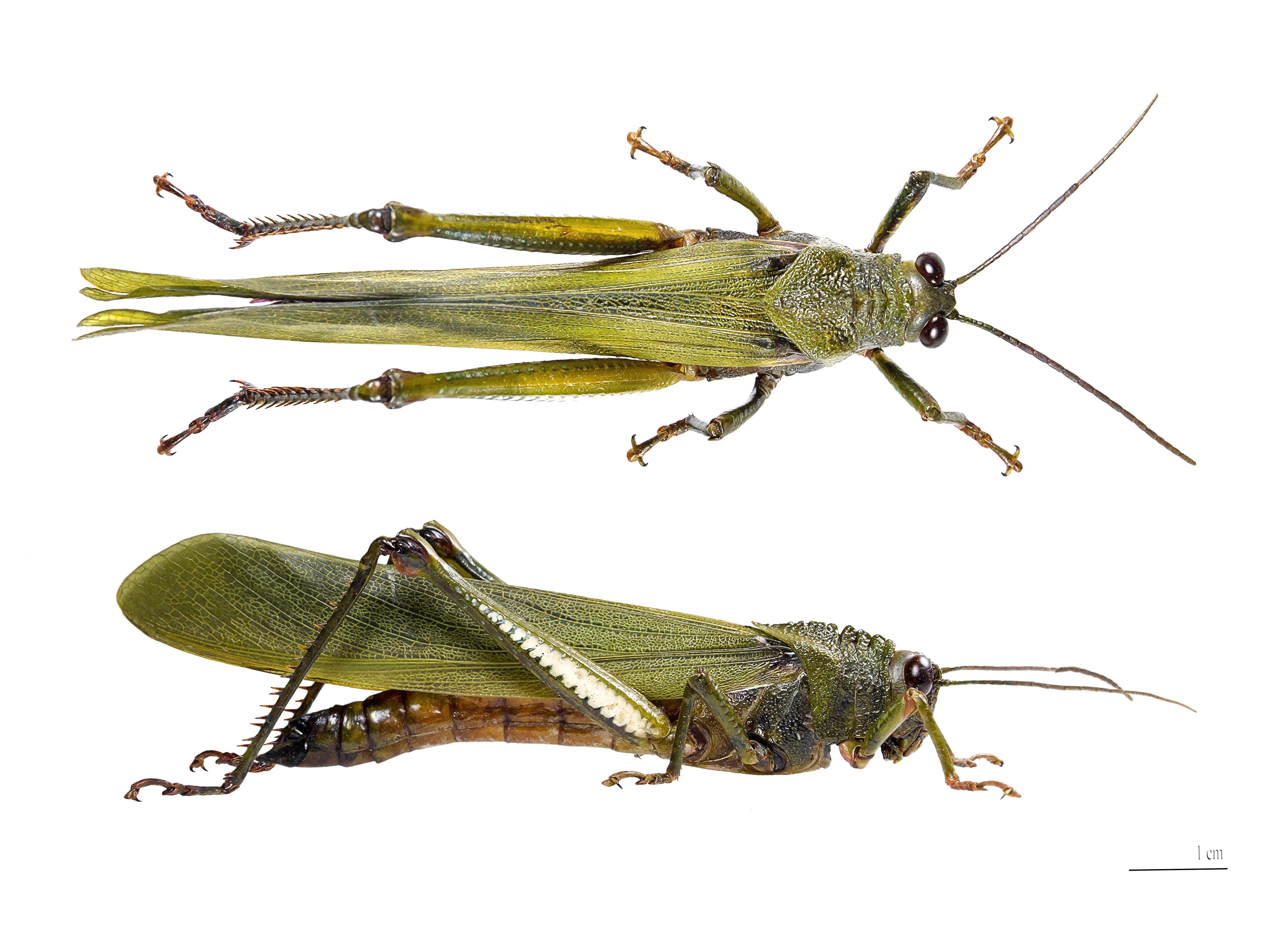 Male - Dorsal and profile same specimen. Locality:French Guiana